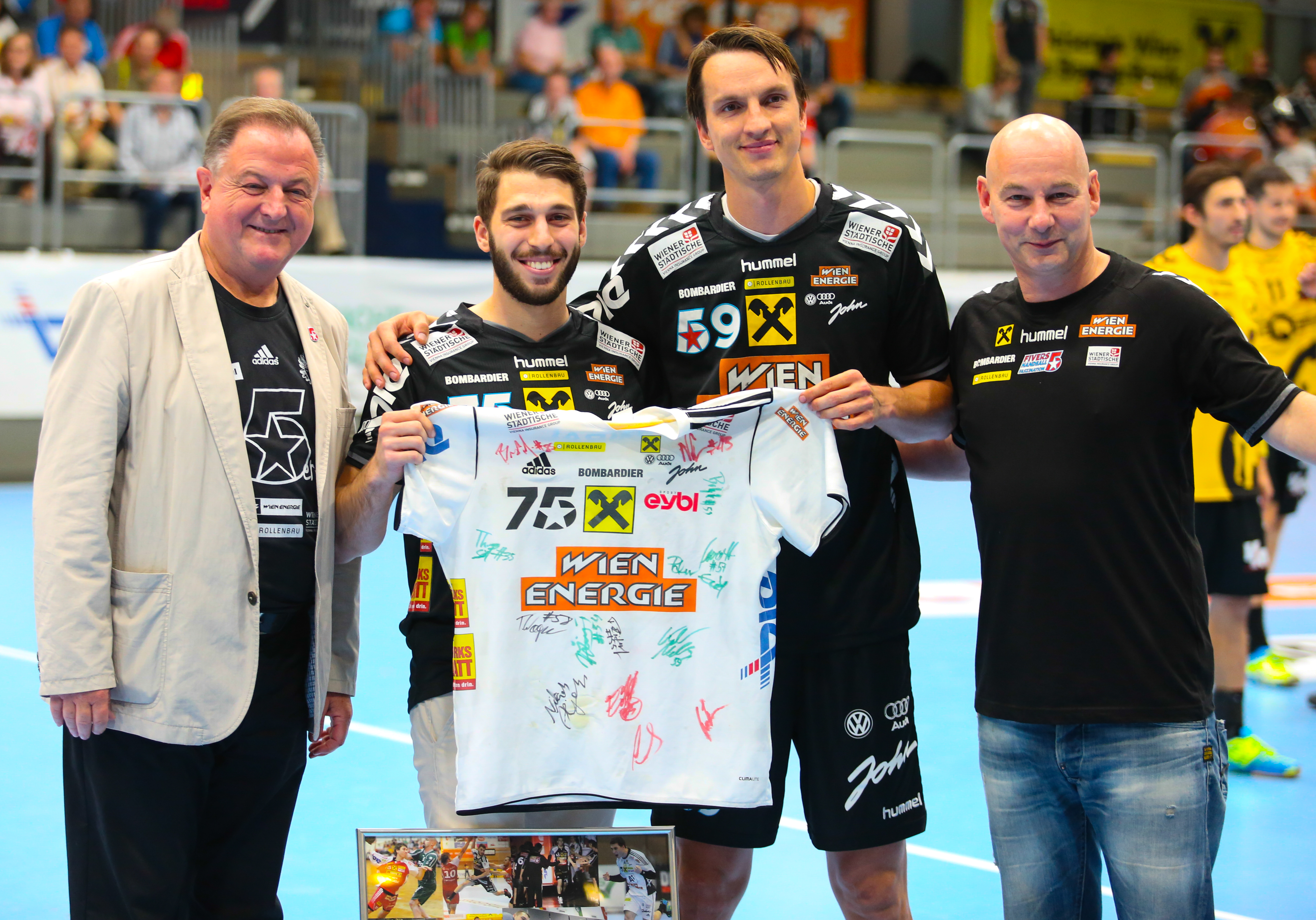 Dipl.-Ing Eduard Winter, Martin Fuger, Markus Kolar and Thomas Menzl celebrating Martin Fugers goodbye from the Fivers Margareten.